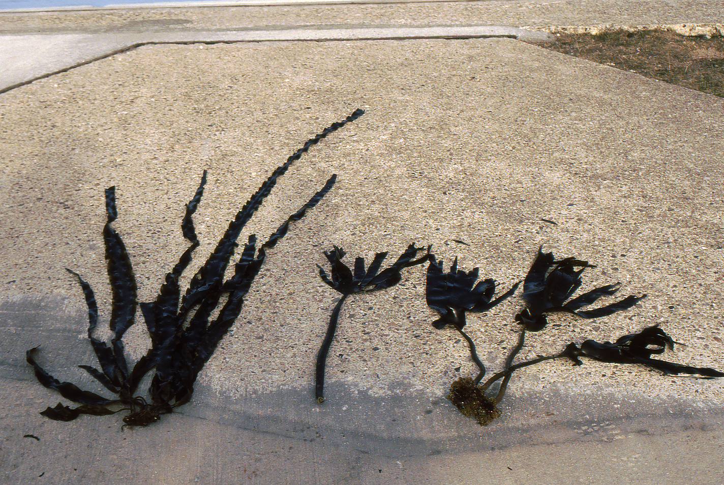 From left to right: Saccharina latissima (formerly L. saccharina), Laminaria digitata and Laminaria hyperborea